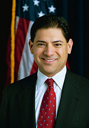 Israel Hernandez, former Assistant Secretary of Commerce for International Trade and Promotion